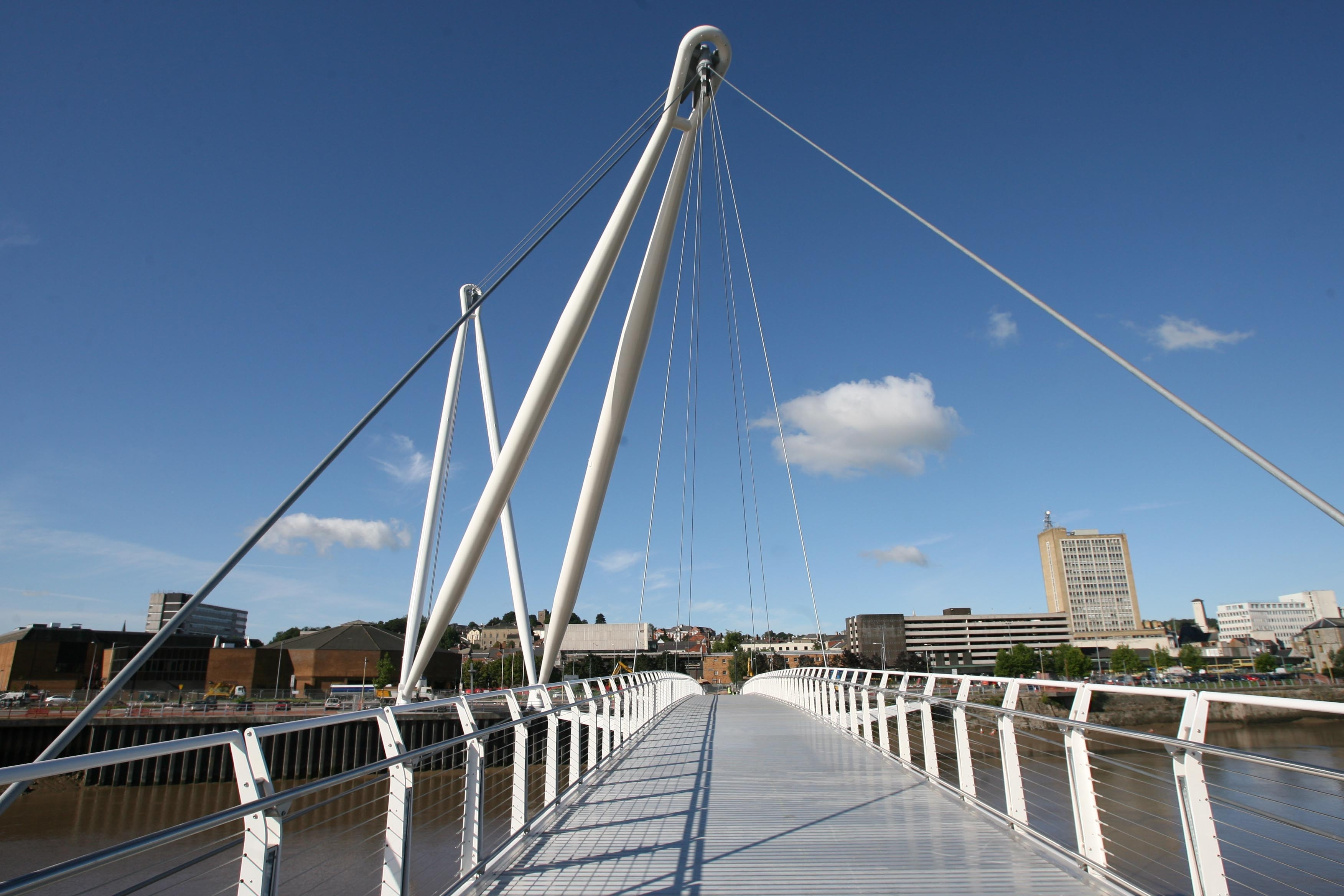 Atkins image